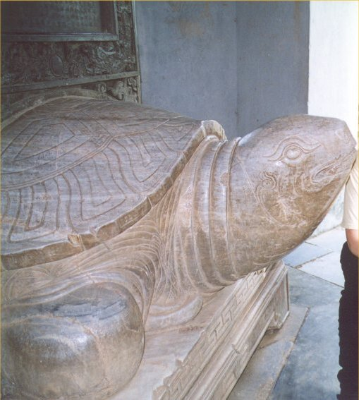 Bixi Tortoise at Thien Mu Pagoda in Hue, Vietnam. It is said to date to 1715